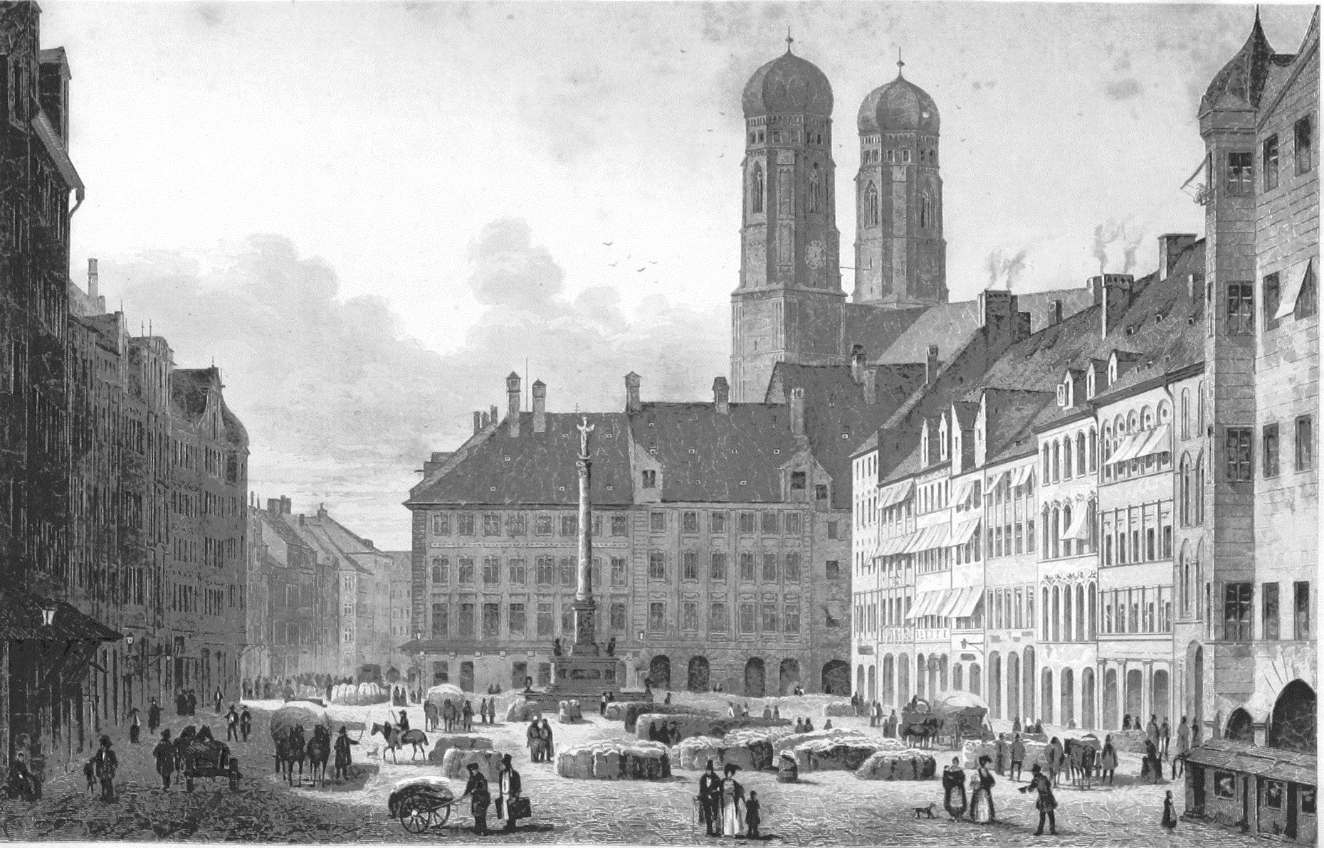 Image extracted from page 176 of above. Original held and digitised by the British Library. Note: The colours, contrast and appearance of these illustrations are unlikely to be true to life. They are derived from scanned images that have been enhanced for machine interpretation and have been altered from their originals.